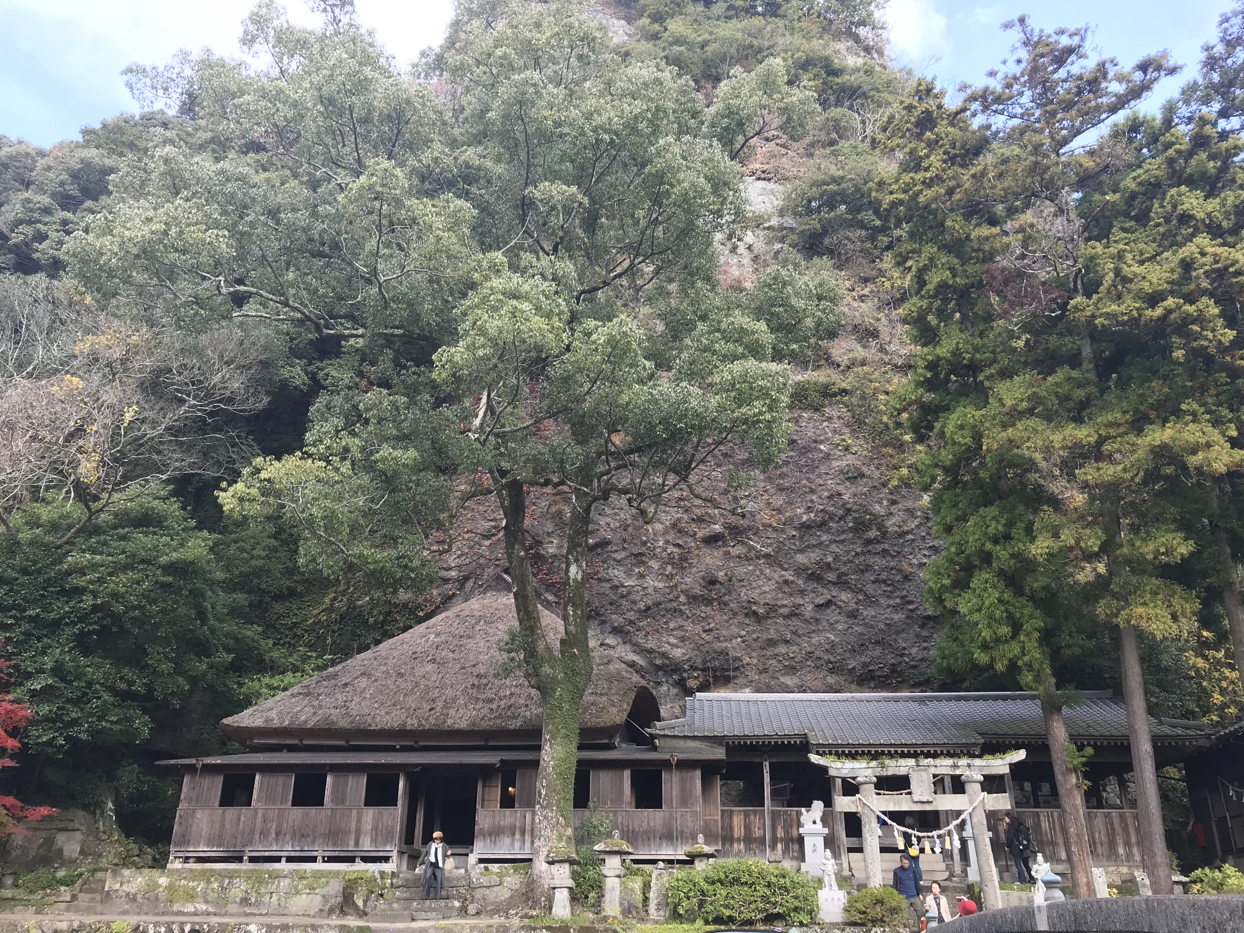 天念寺講堂と身濯神社